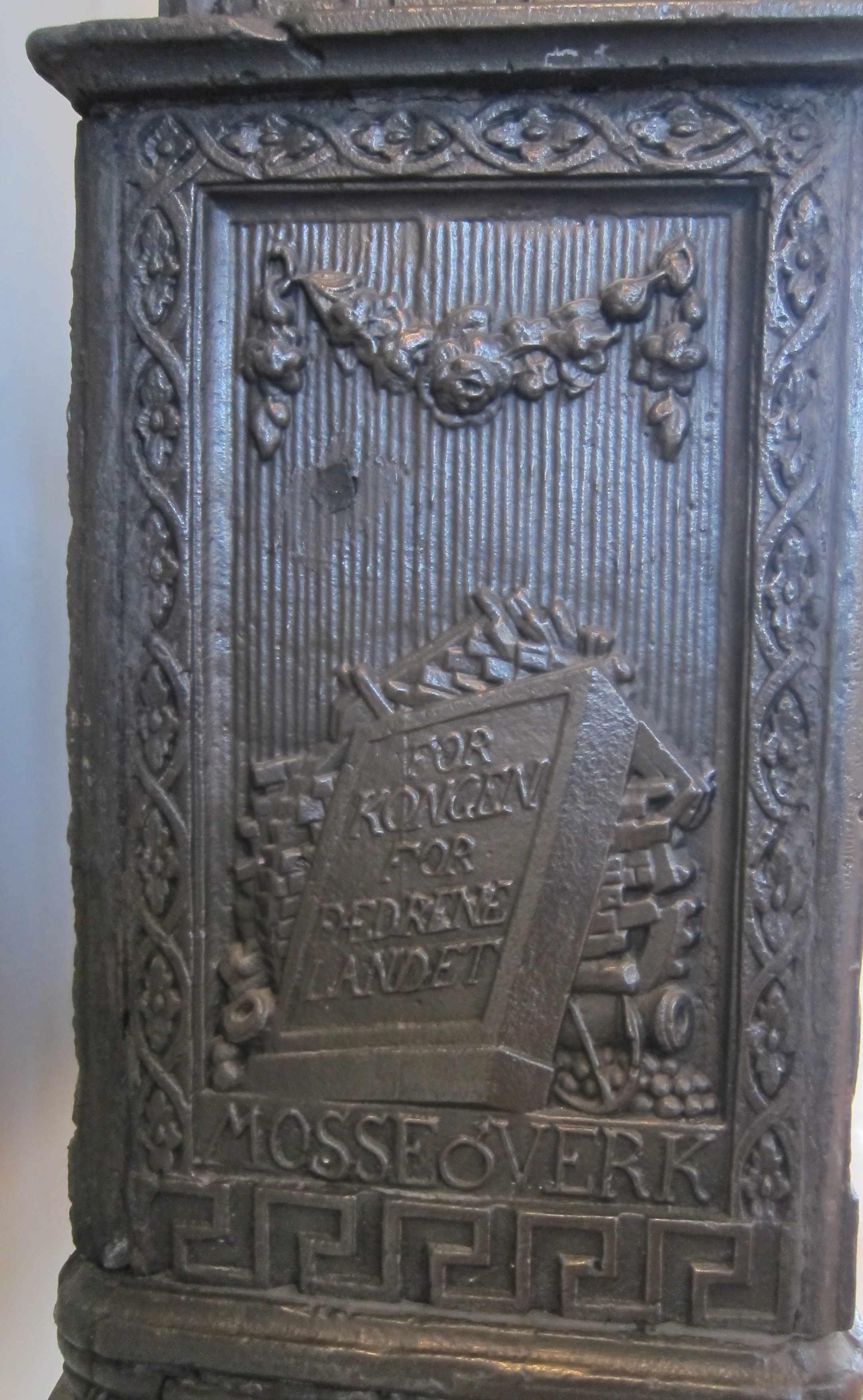 Detail of iron cast oven, the oven was manufactured at Moss Jernverk (Moss Ironworks), in Moss, Norway. It is on display at the Moss Jernvek old administration building (konvensjonsgården) in Moss.